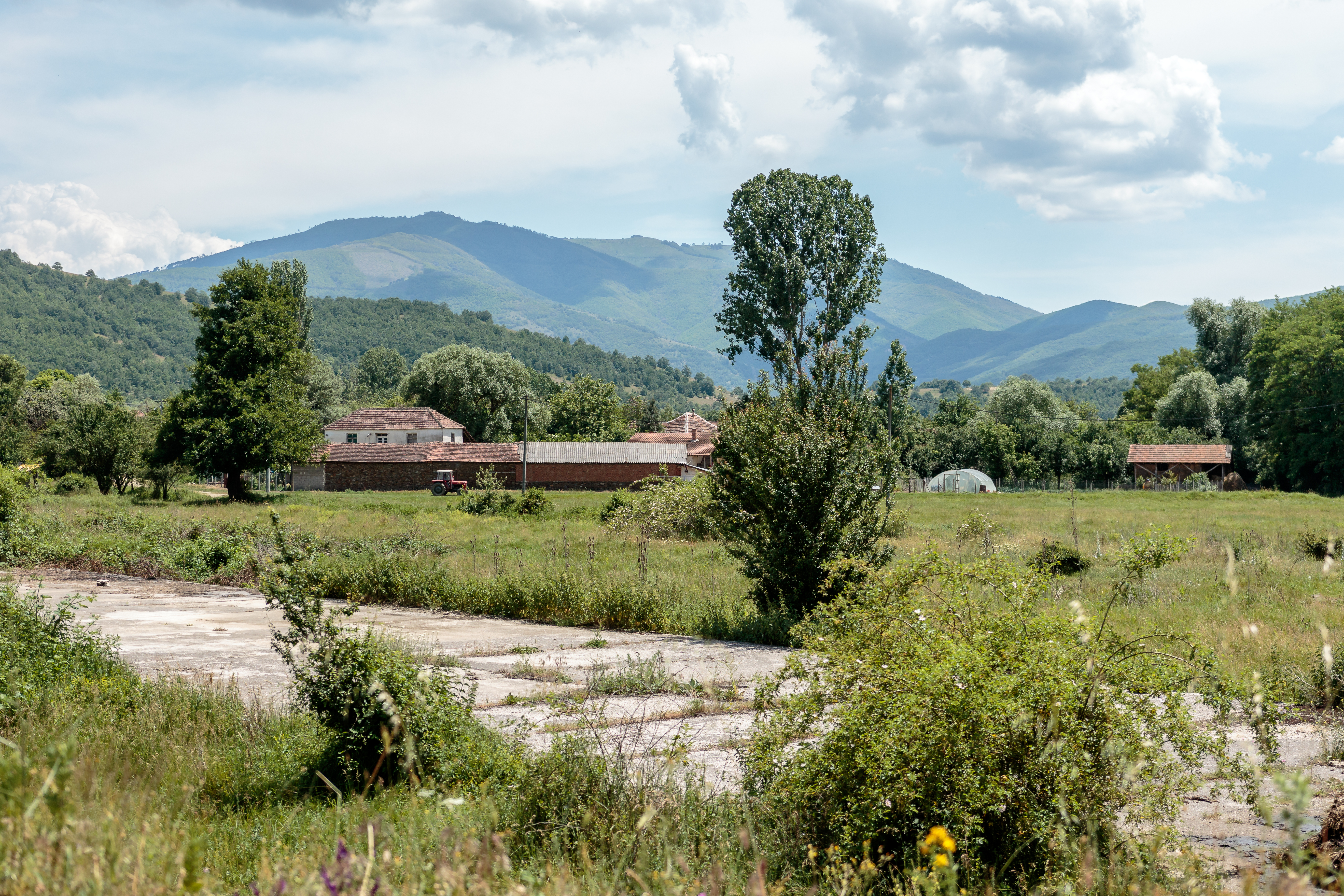 Houses in the village Žurče